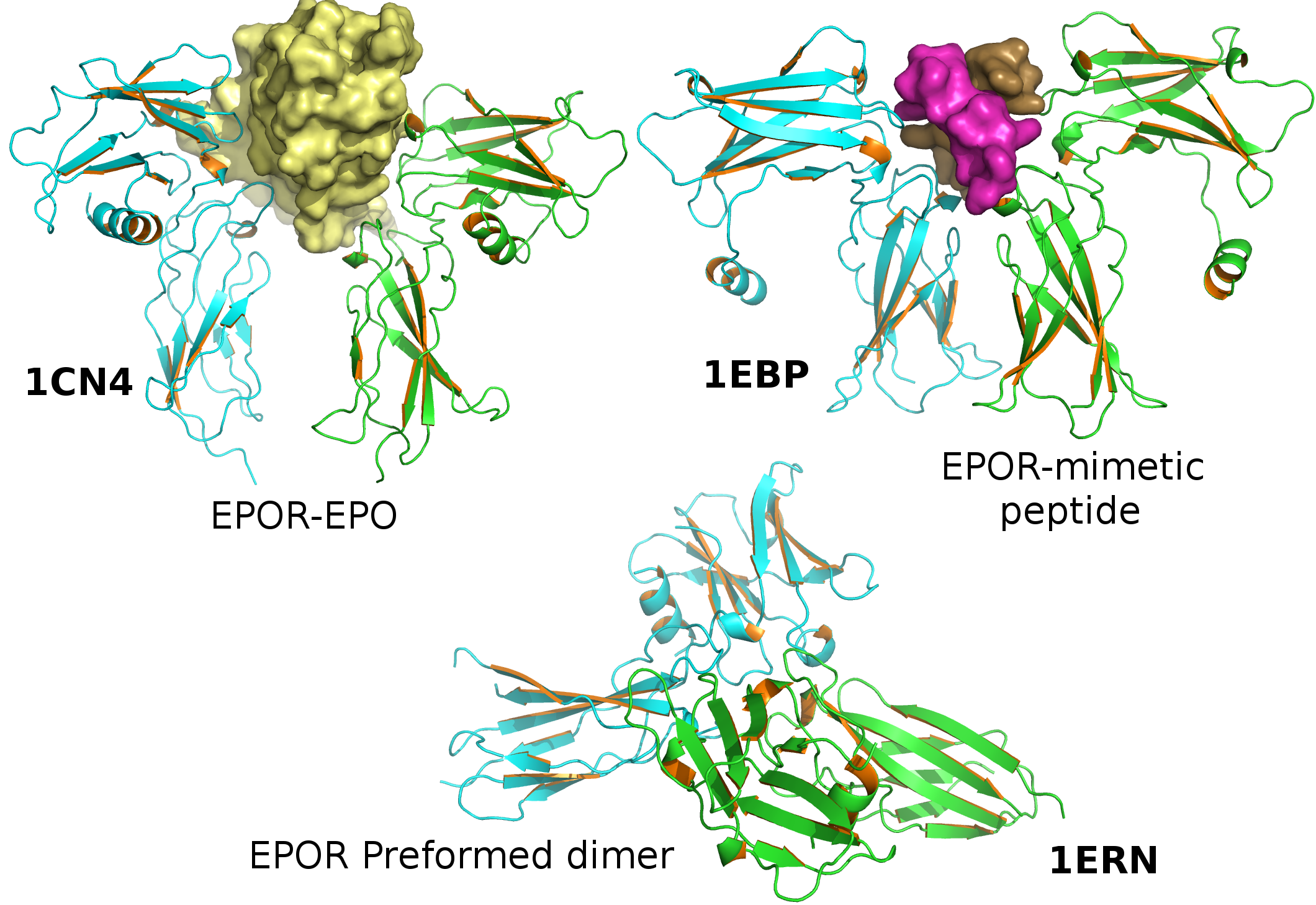 Dimeric states of Erythropoietin Receptor.